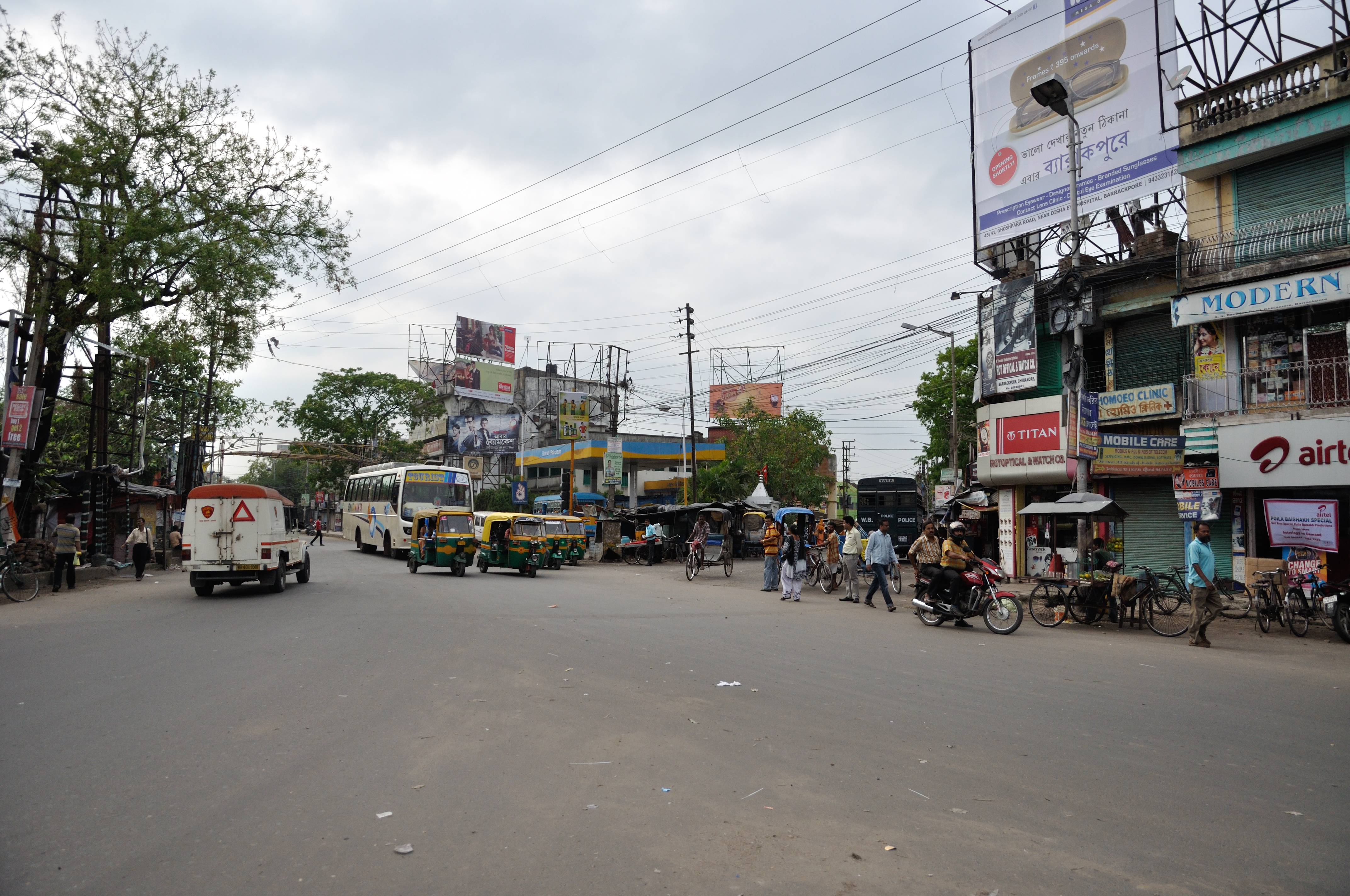 photographed in greater Kolkata.